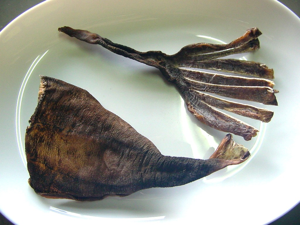 dried aperture of Barnea dilatata and its roasted and cut one